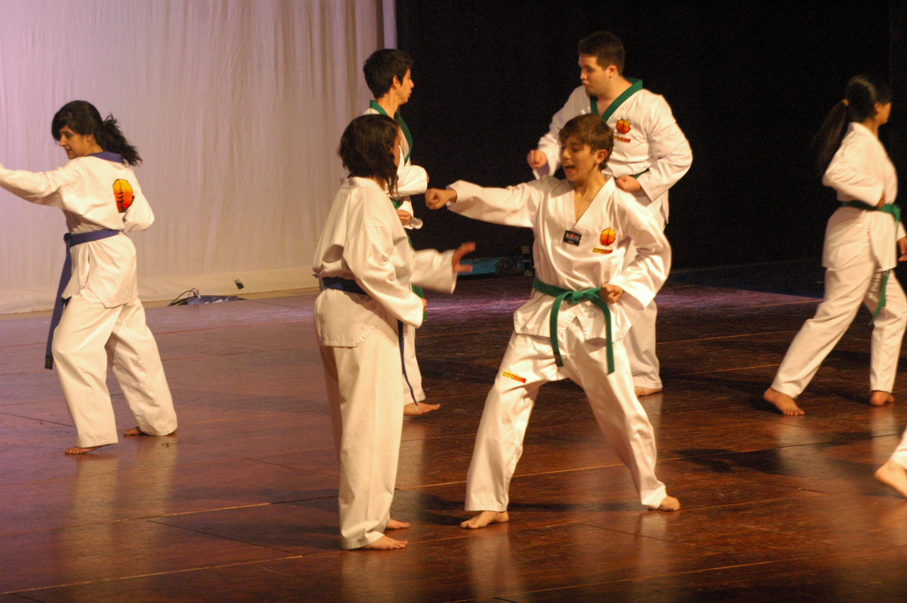 Tae Kwon Do demonstration during Culture Week at ITESM, Mexico City's Campus